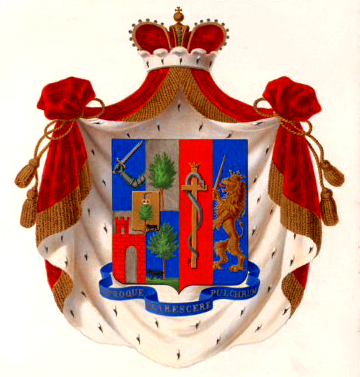 Coat of Arms of Gagariny-Sturdza family